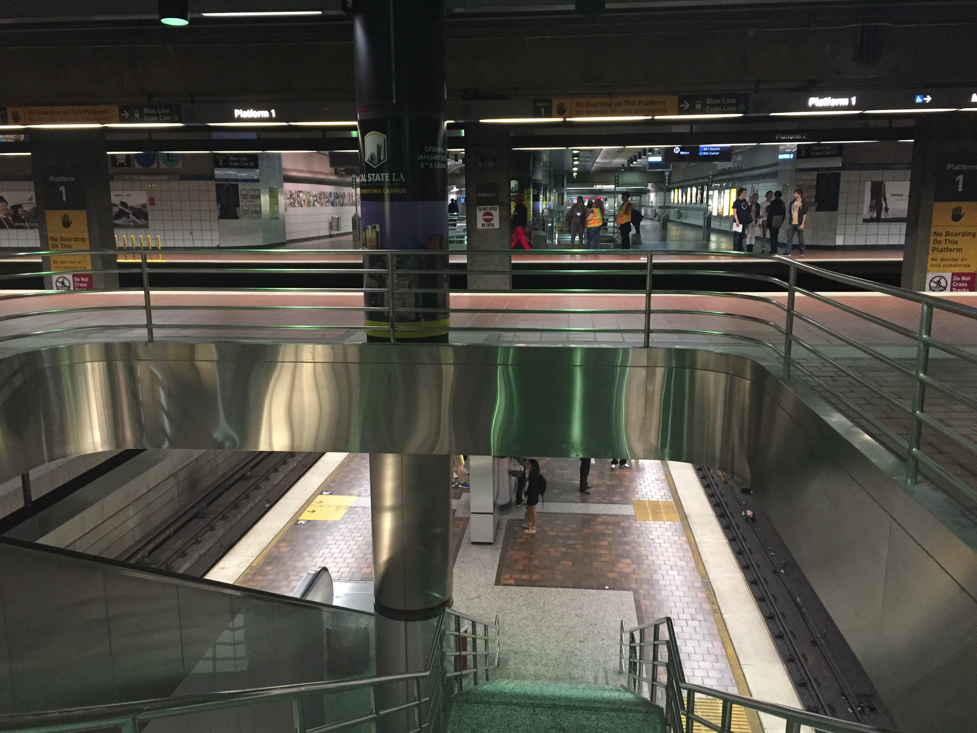 Platforms of the 7th/Metro Center LACMTA station in Downtown Los Angeles, California in 2016. The tracks for the Blue and Expo Lines cross over the tracks for the Red and Purple Lines.